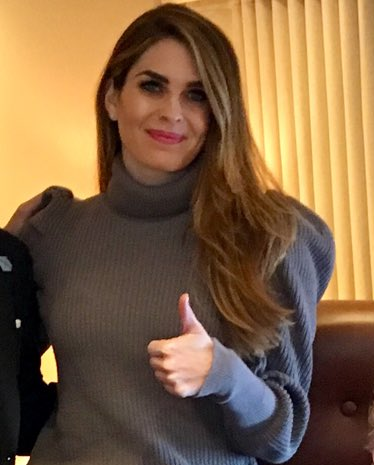 Donald Trump and staff on Air Force One.